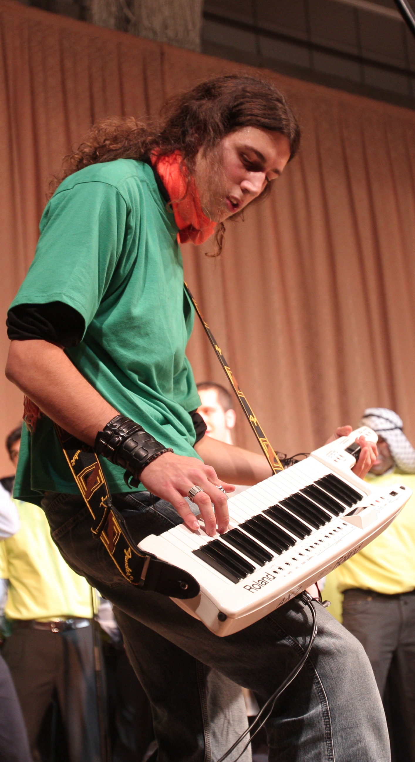 Jose Aranda, keyboardist and writer, in a concert.